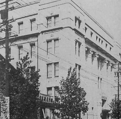 Nagoya Bank Head Office (Antecedent of Tokai Bank)